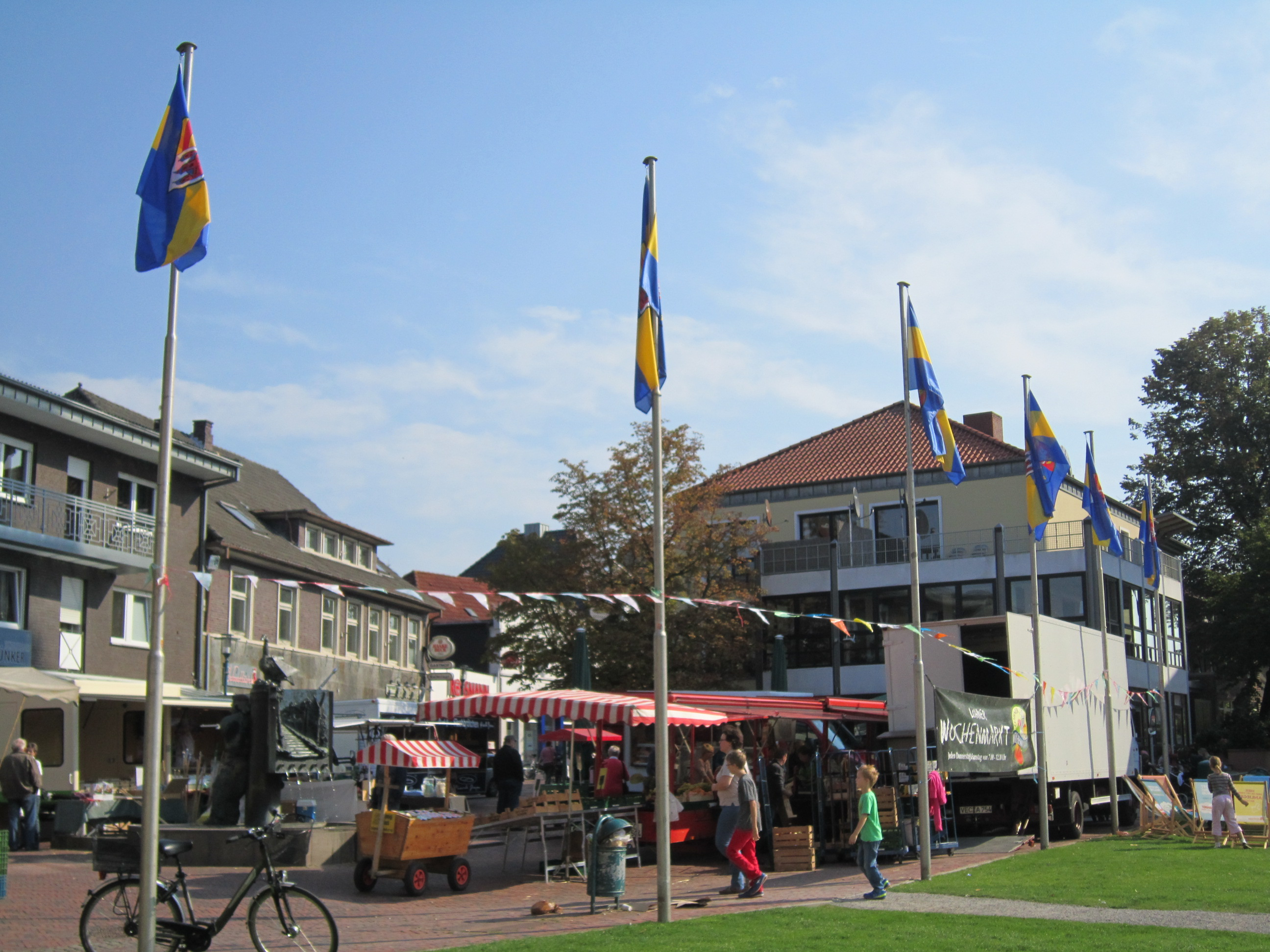 Weekly market in Lohne